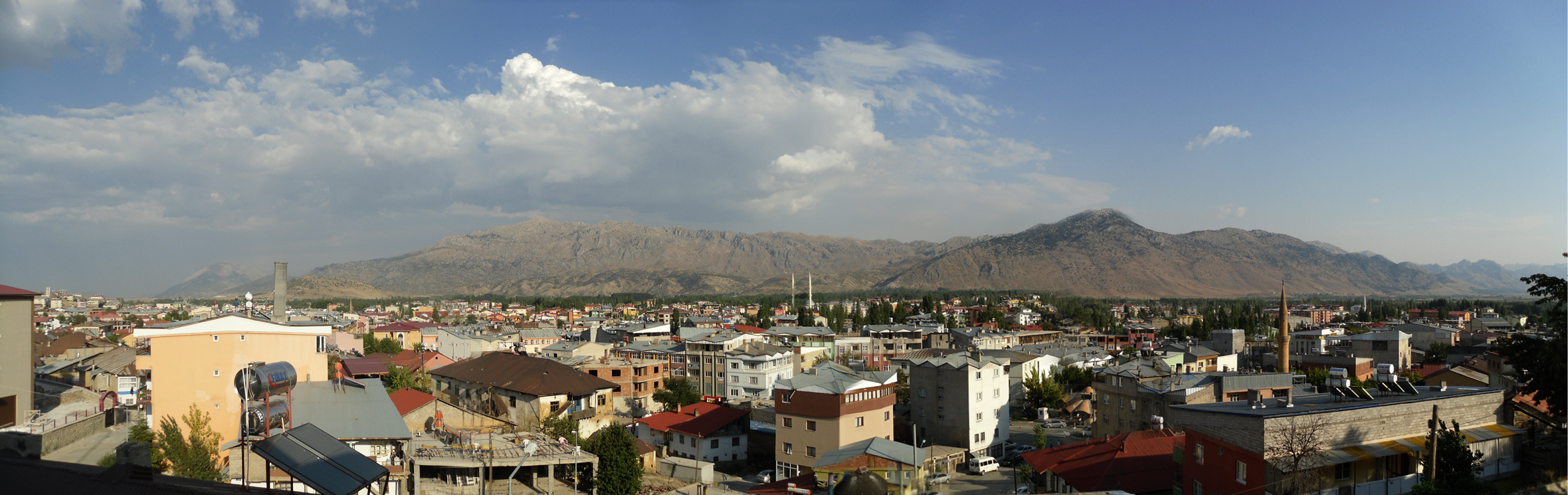 A view from Göksun